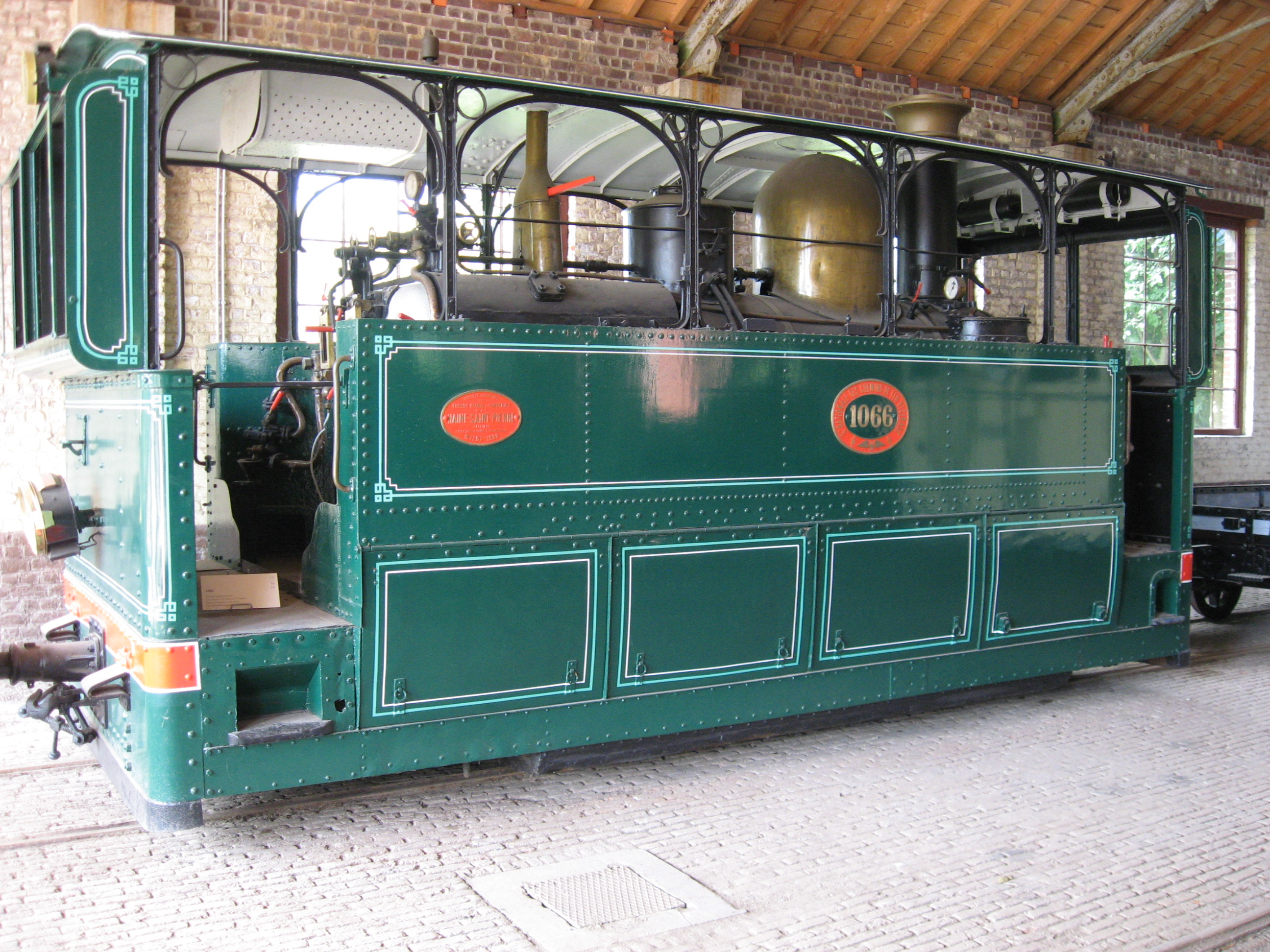 Steamtramloc 1066 in Schepdaal museum.